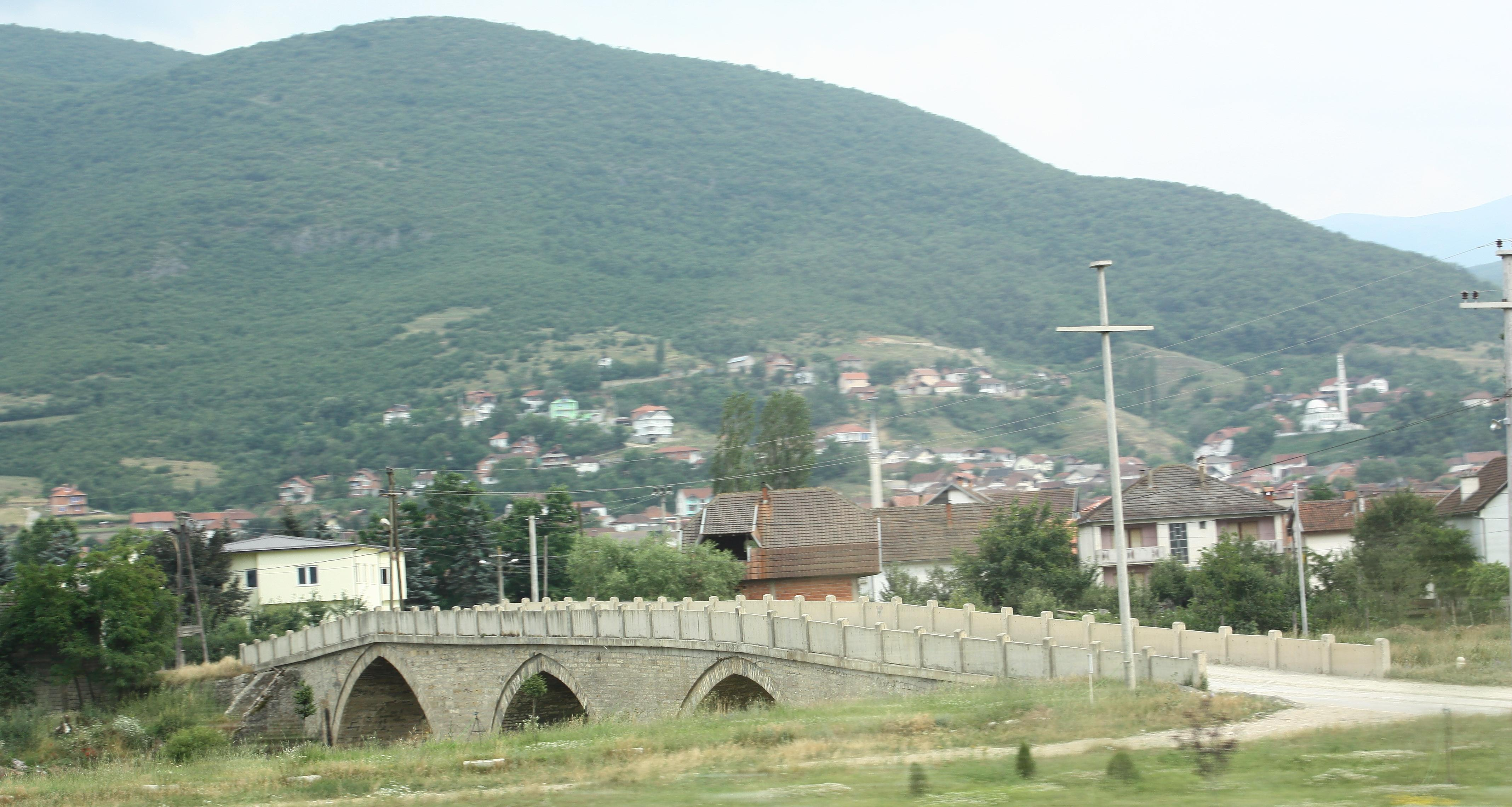 Želino, Macedonia